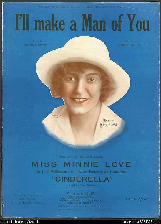 1914 Sheet music cover for "I'll Make a Man of You" by Arthur Wimperis and Herman Finck